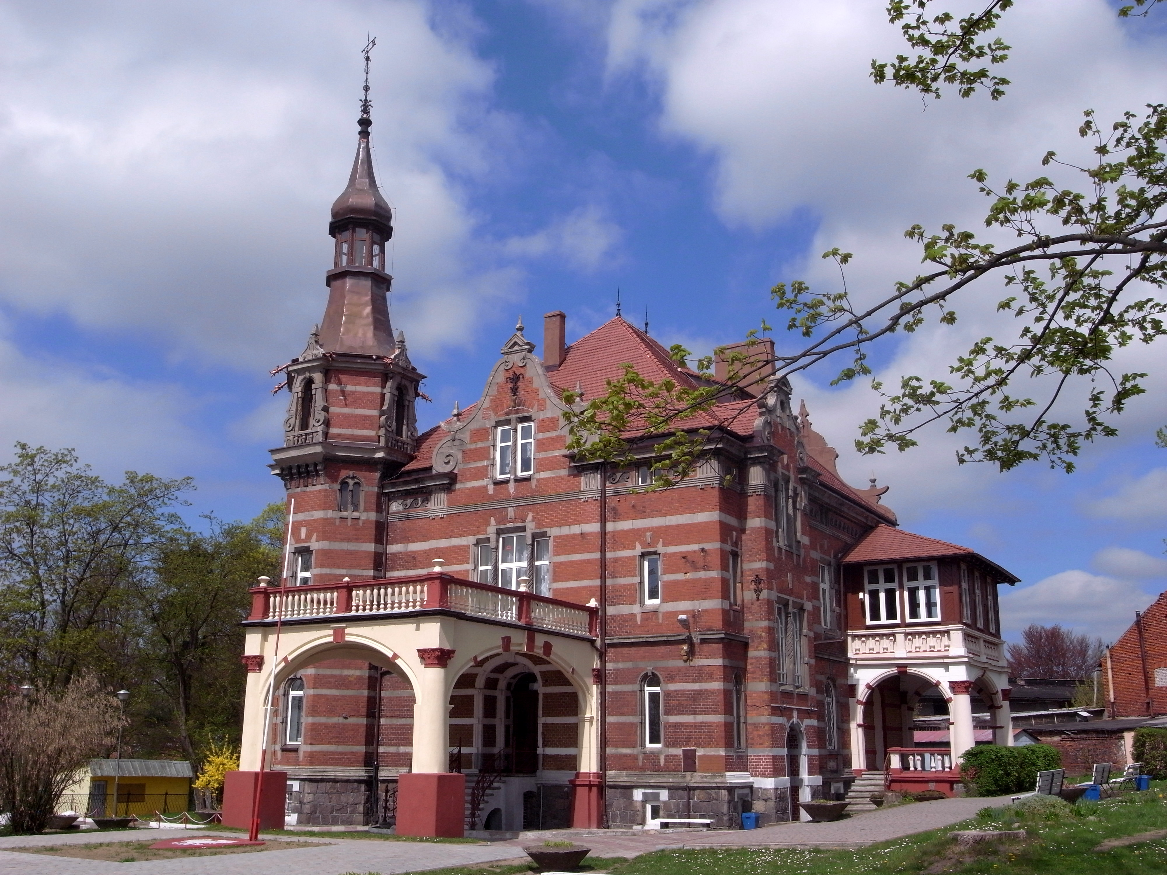 Sławno. Villa Schultz from 1897. Before World War II A.Schultz was the owner of the local brewery.